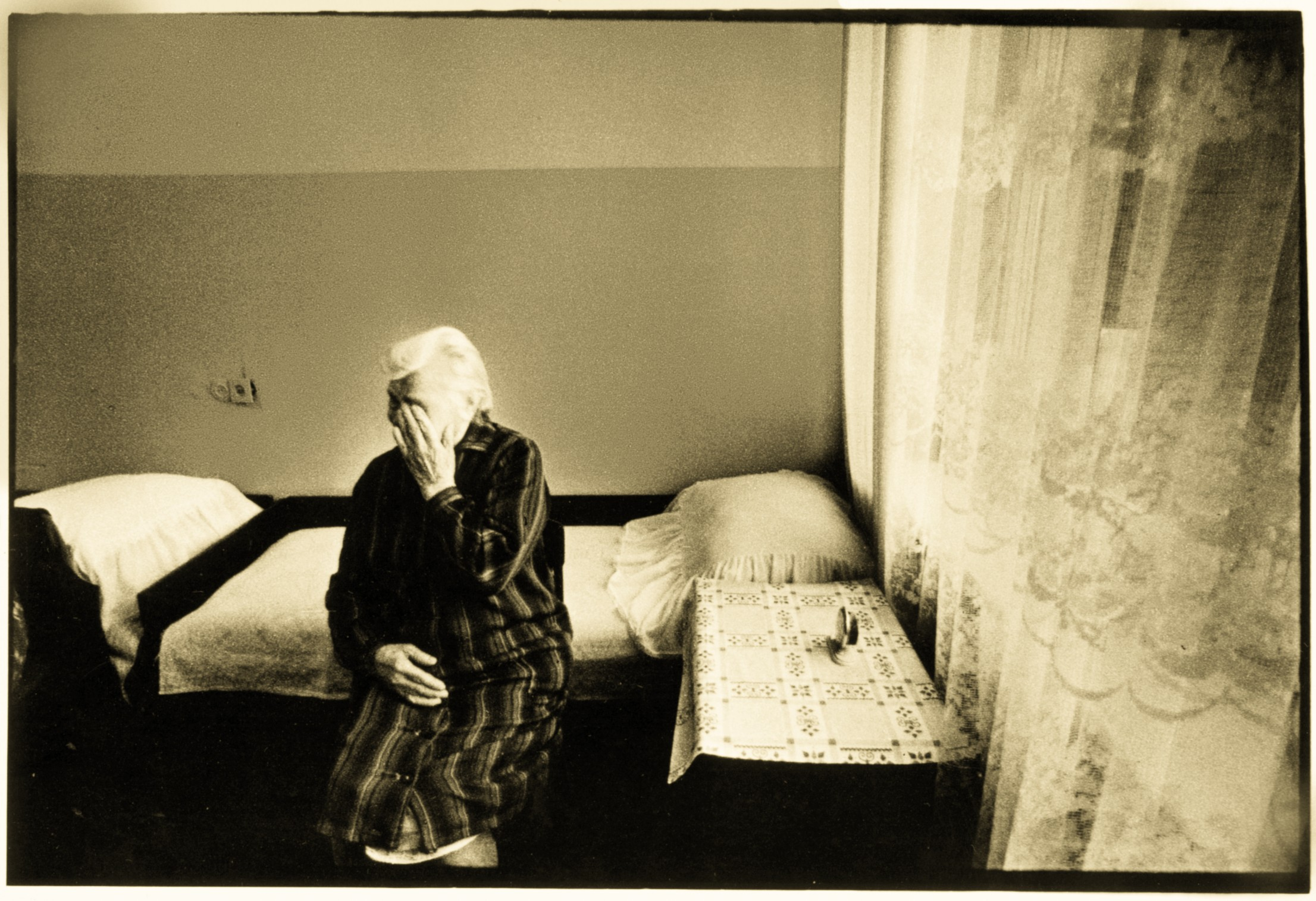 Aleksandras Ostašenkovas, Kitas krantas No58, Lithuania